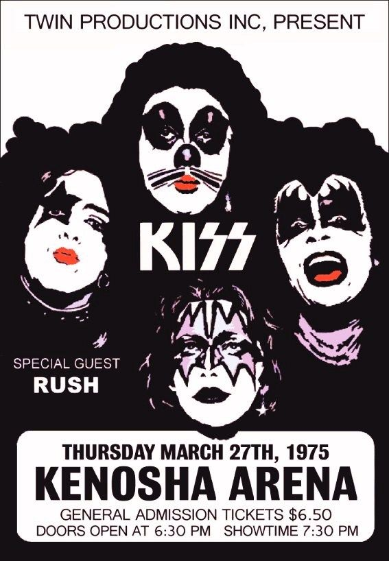 Advert from a Kiss show in 1975.